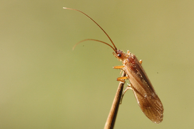 Picture taken in Commanster, Belgian High Ardennes . Species: Chaetopteryx villosa - Misidentified: this is Anabolia sp.!